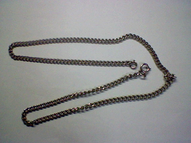 Neck chain